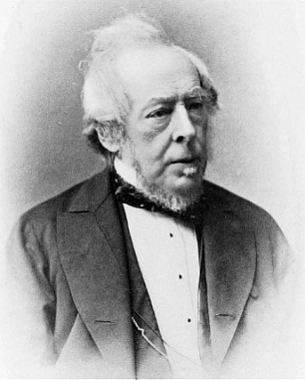 Charles Pelham Villiers (3 January 1802 – 16 January 1898) was a British lawyer and politician who sat in the House of Commons from 1835 to 1898, making him the longest-serving Member of Parliament (MP).